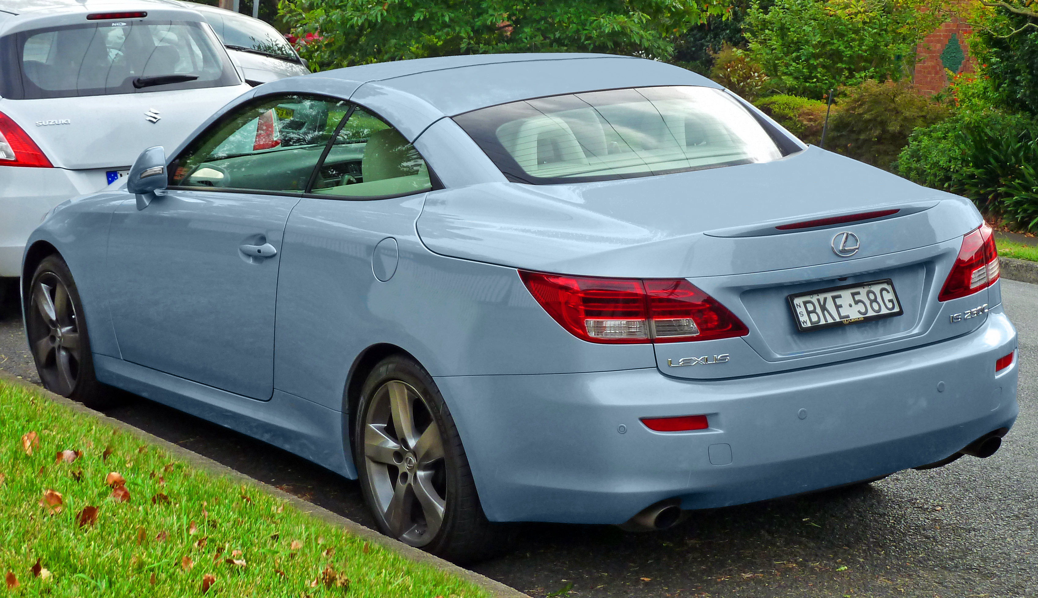 2009 Lexus IS 250 C (GSE20R) Sports convertible. Photographed in Roseville, New South Wales, Australia.